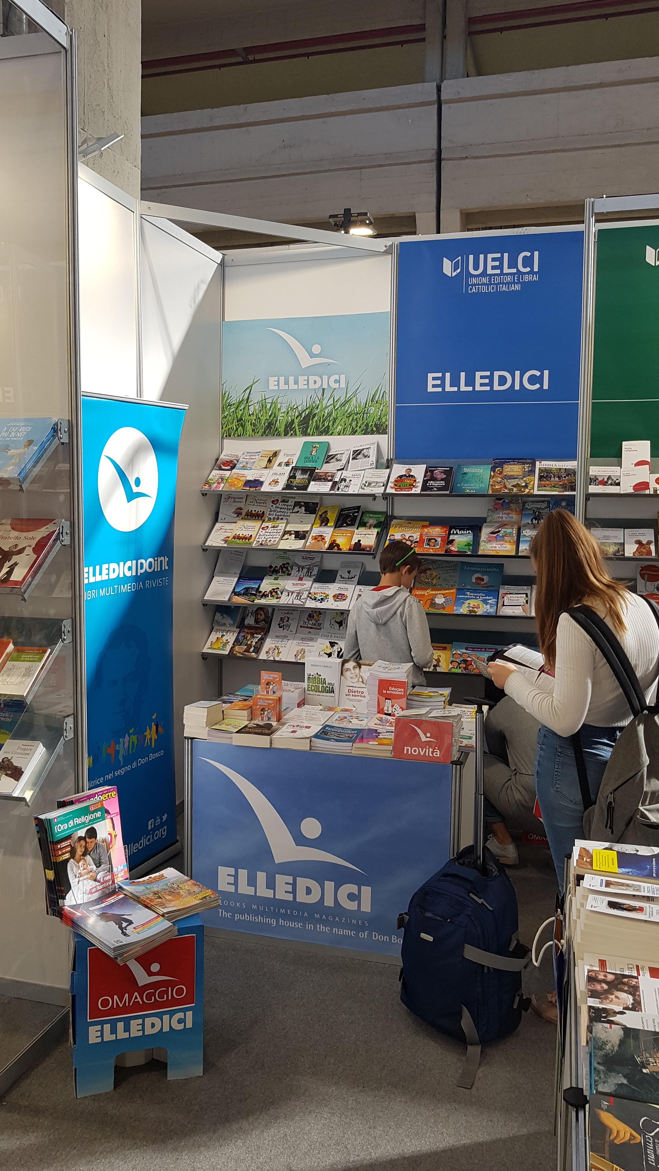 Elledici